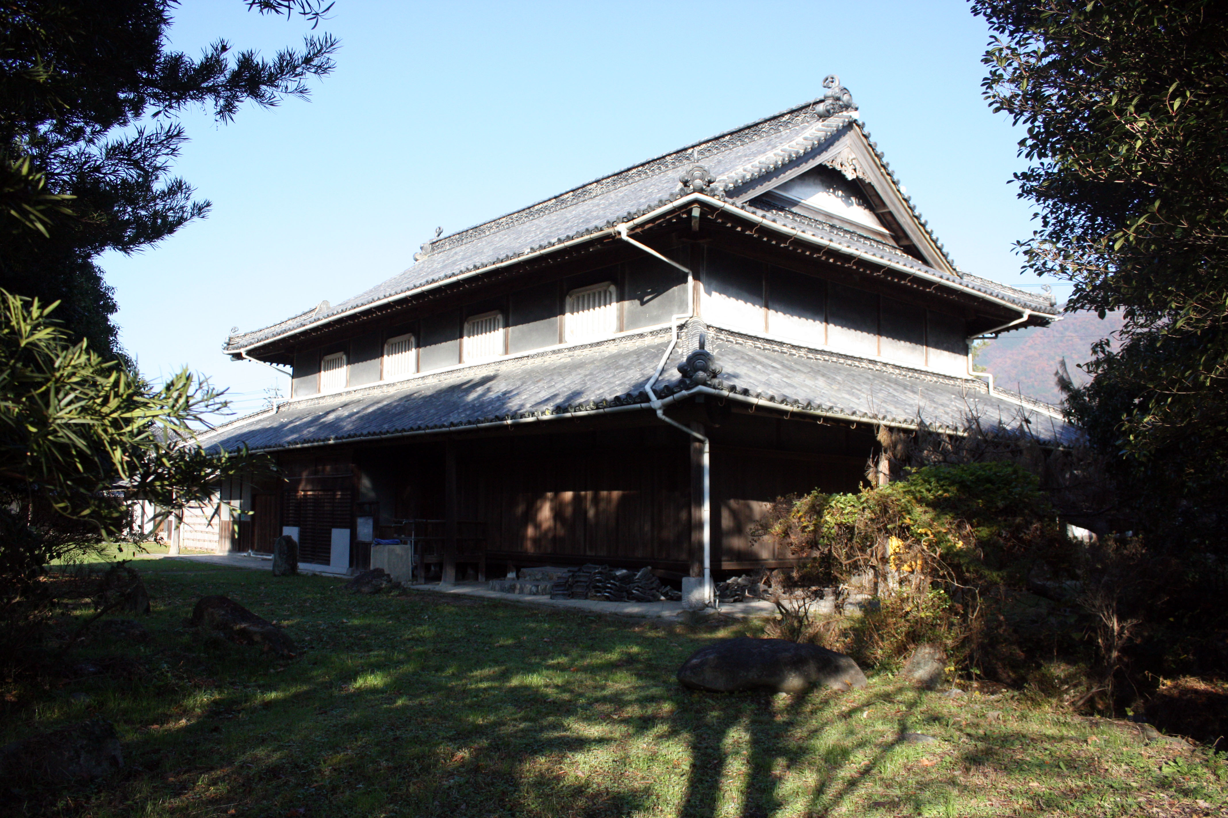 Aoki Residence, main building, Mima Town, Mima City, Tokushima Prefecture, Japan